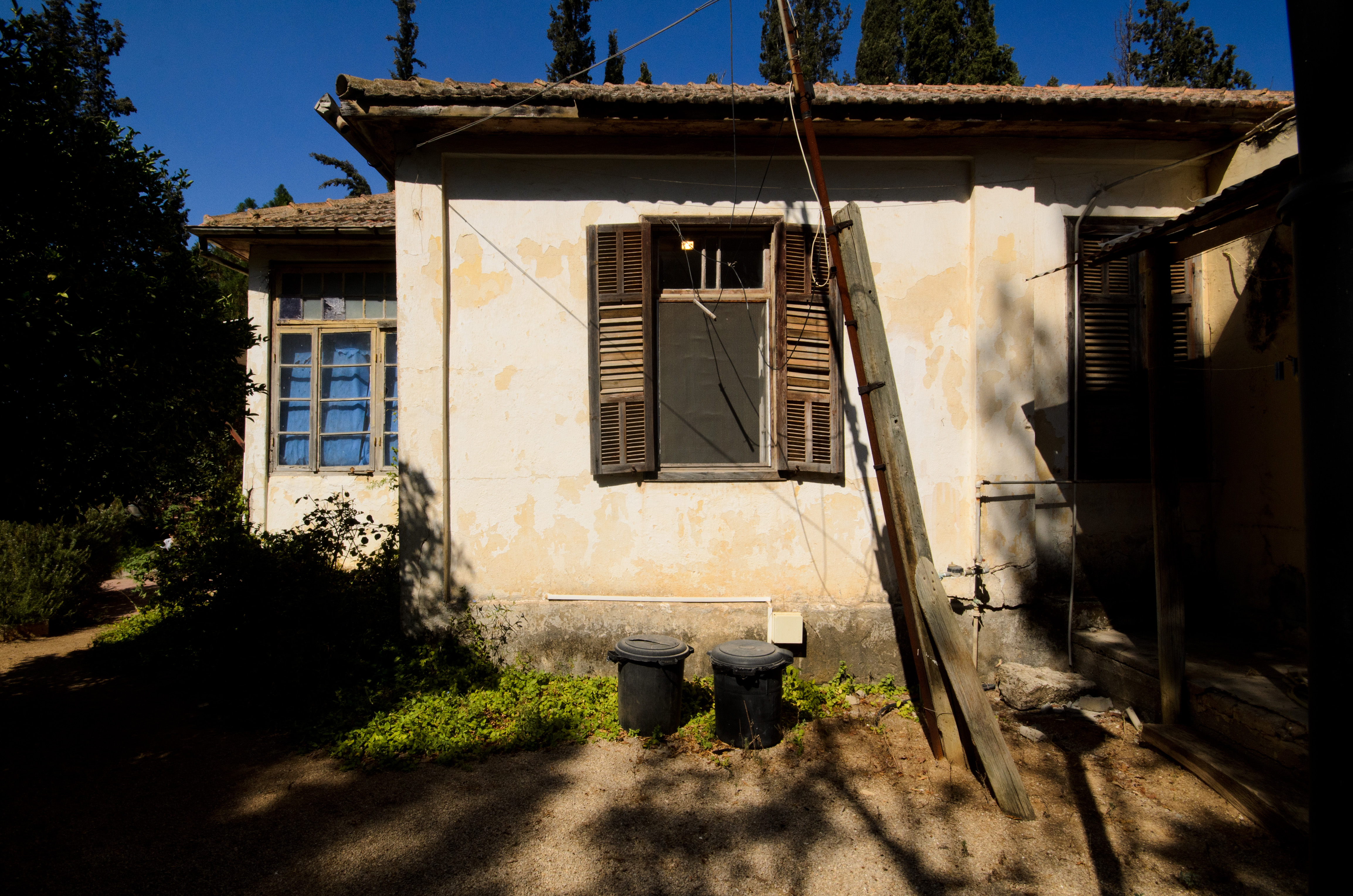 FACADE OF BEIT HARISHONIM, BENYAMINA